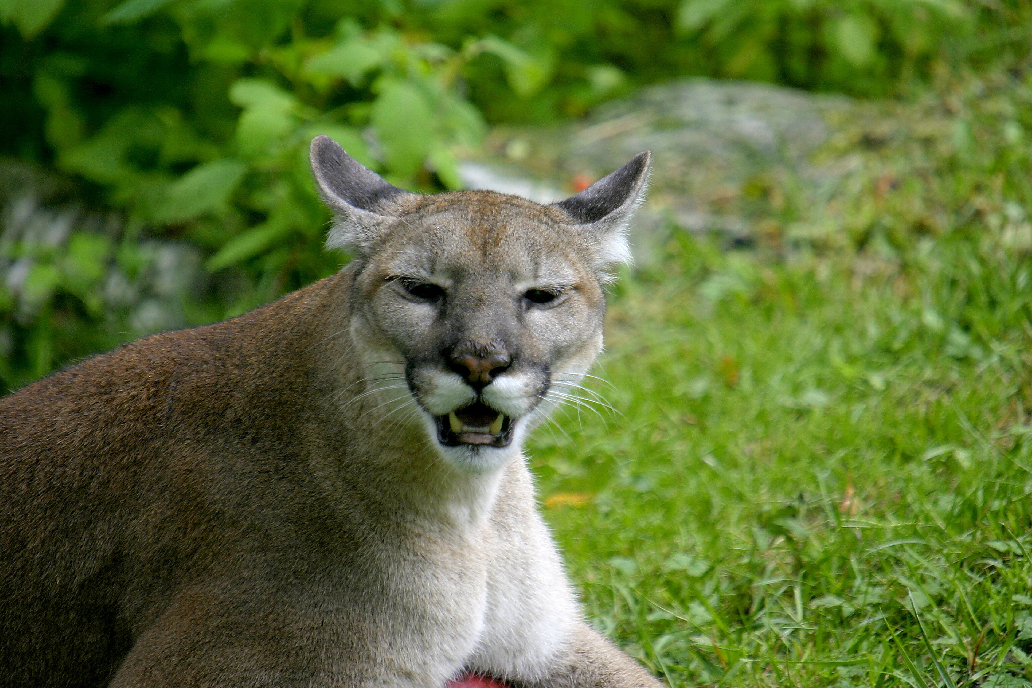 Florida Panther (2), NPSPhoto